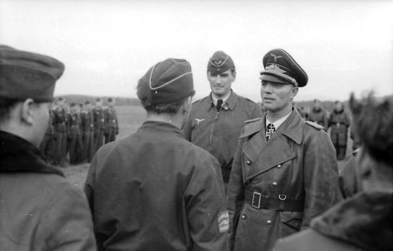 Information added by Wikimedia users.Generalmajor Joseph Schmid inspecting troops